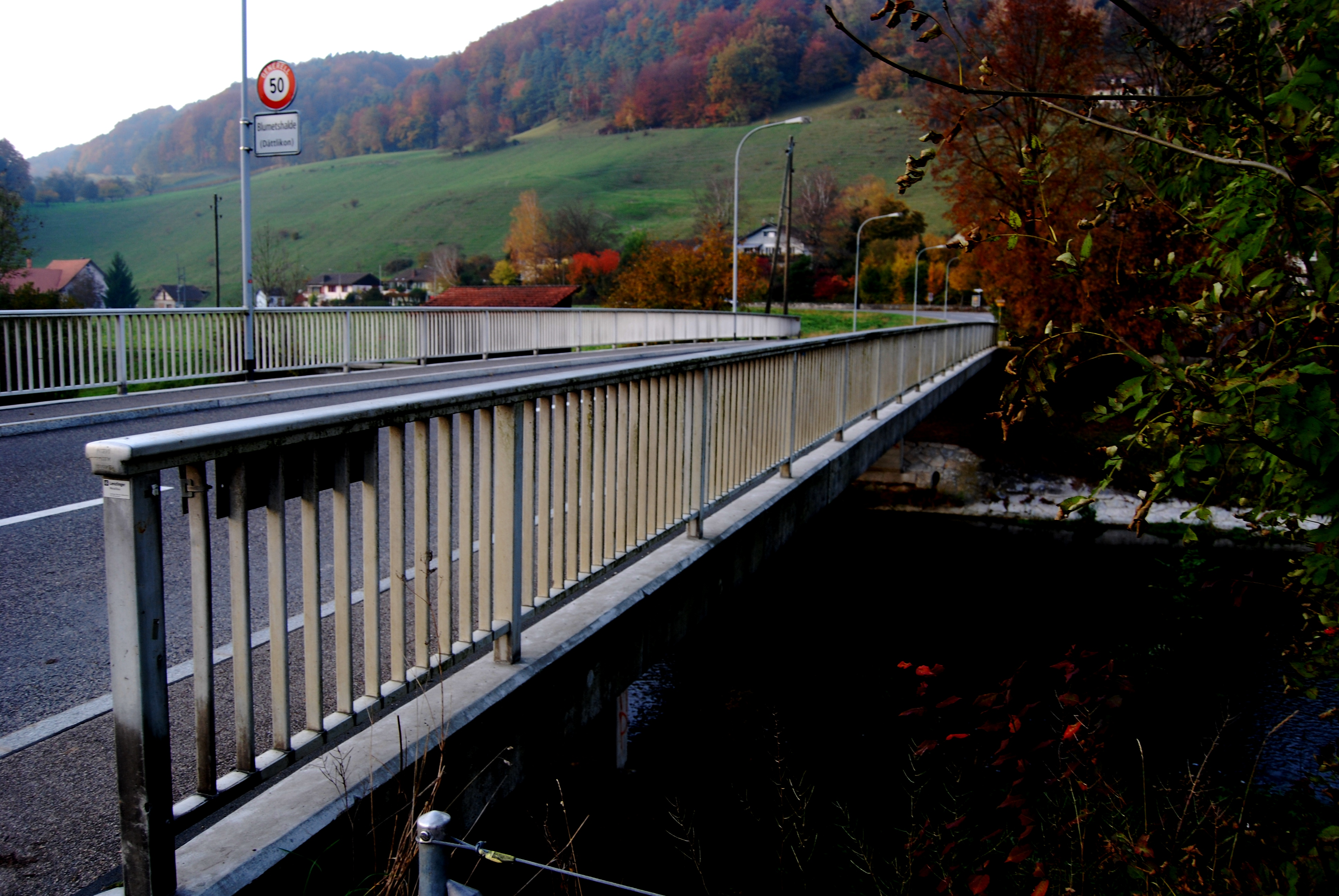 Bridge over Töss from Pfungen to Blumetshalden in the municipality of Dättlikon, canton of Zürich, SwitzerlandEsperanto: Ponto trans Töss de Pfungen al Blumetshalden en la komunumo Dättlikon, Kantono Zuriko, Svislando